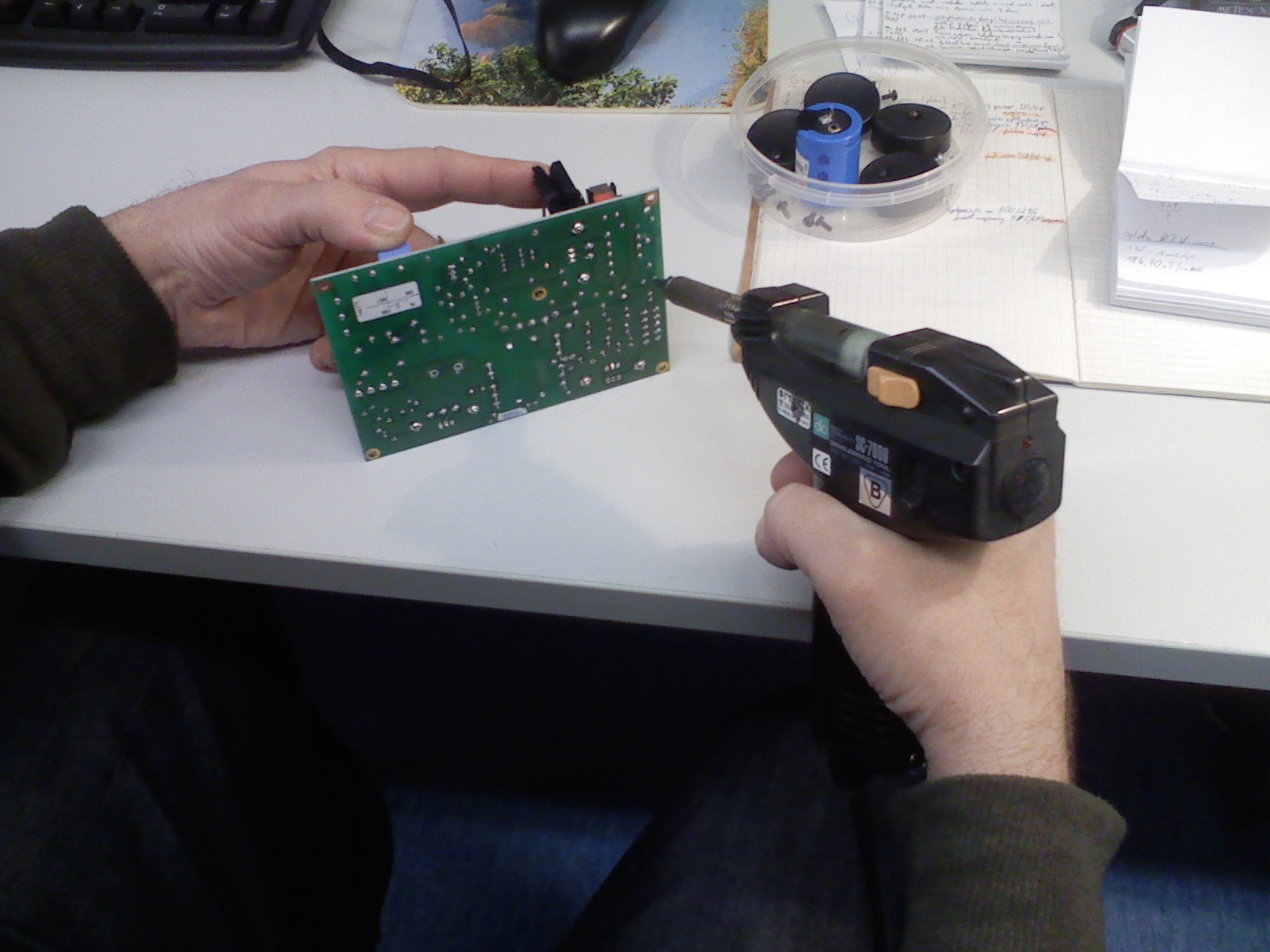 Desoldering with desoldering gun made by dic (De-on Instruments Co.).